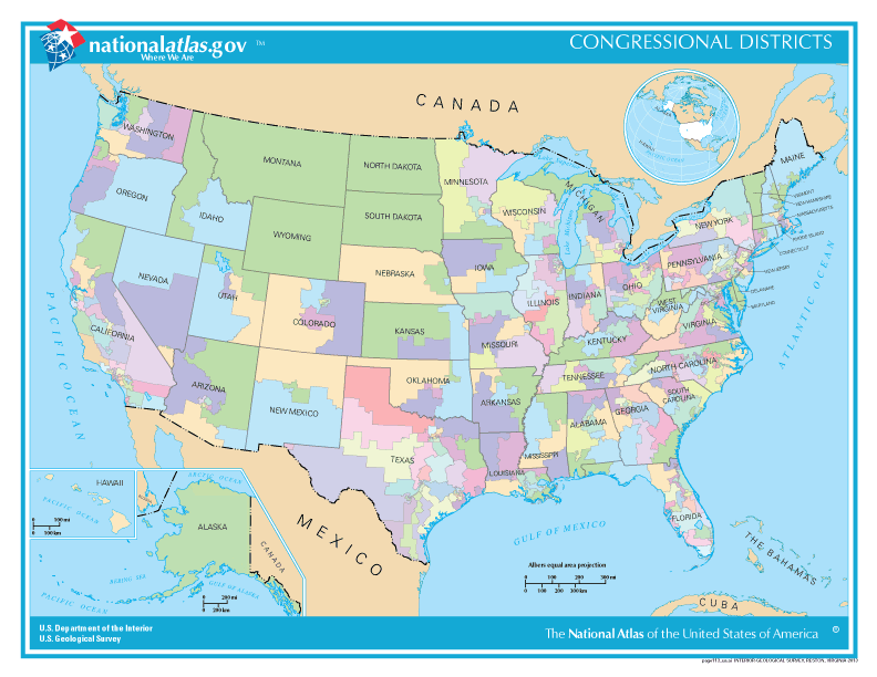 Congressional districts